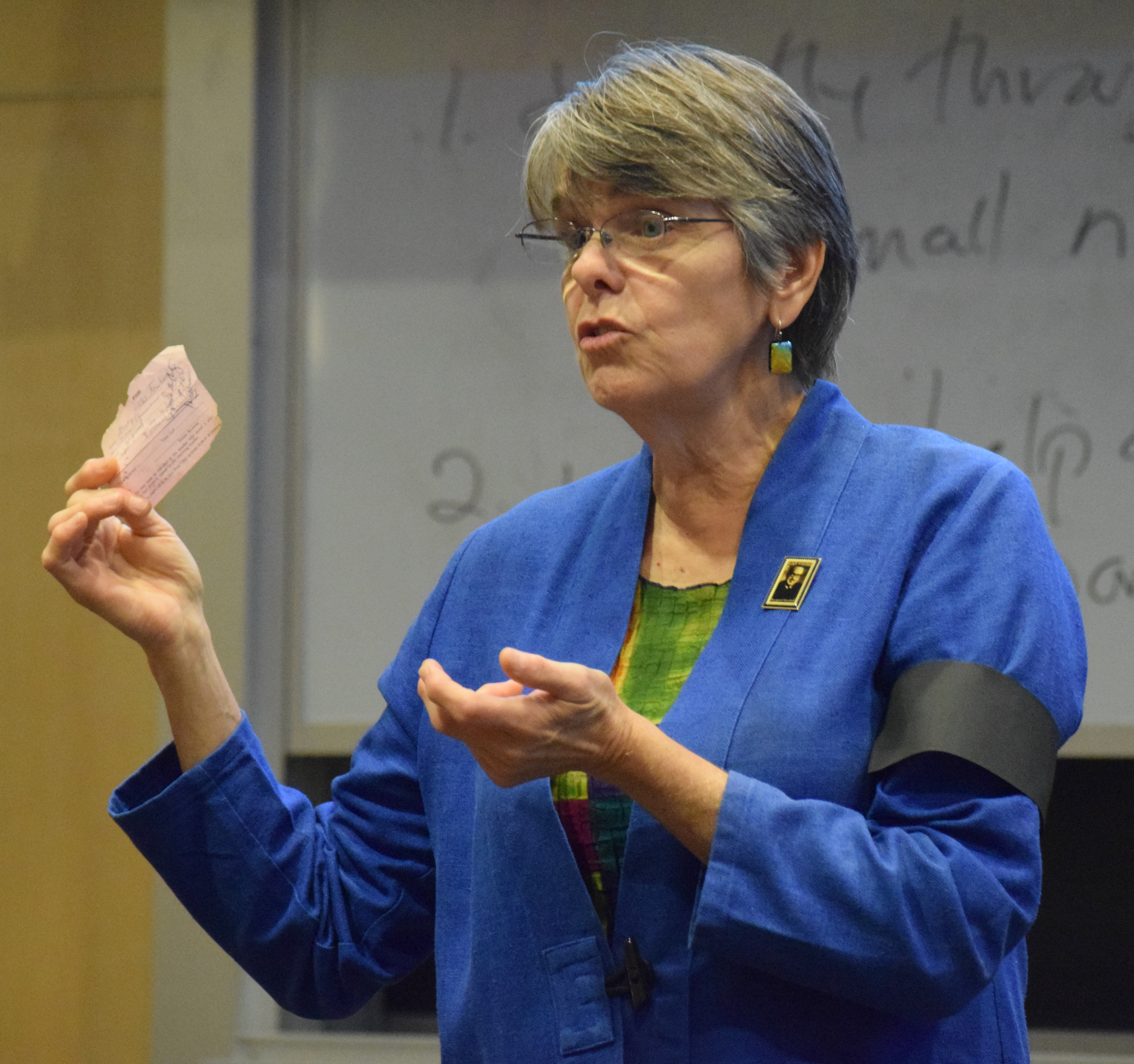 Mary Beth Tinker holding her original detention slip after she wore a black armband to school to protest the Vietnam War (with a replica on her left arm) during a speech at Textor Hall, Ithaca College, 19 September 2017